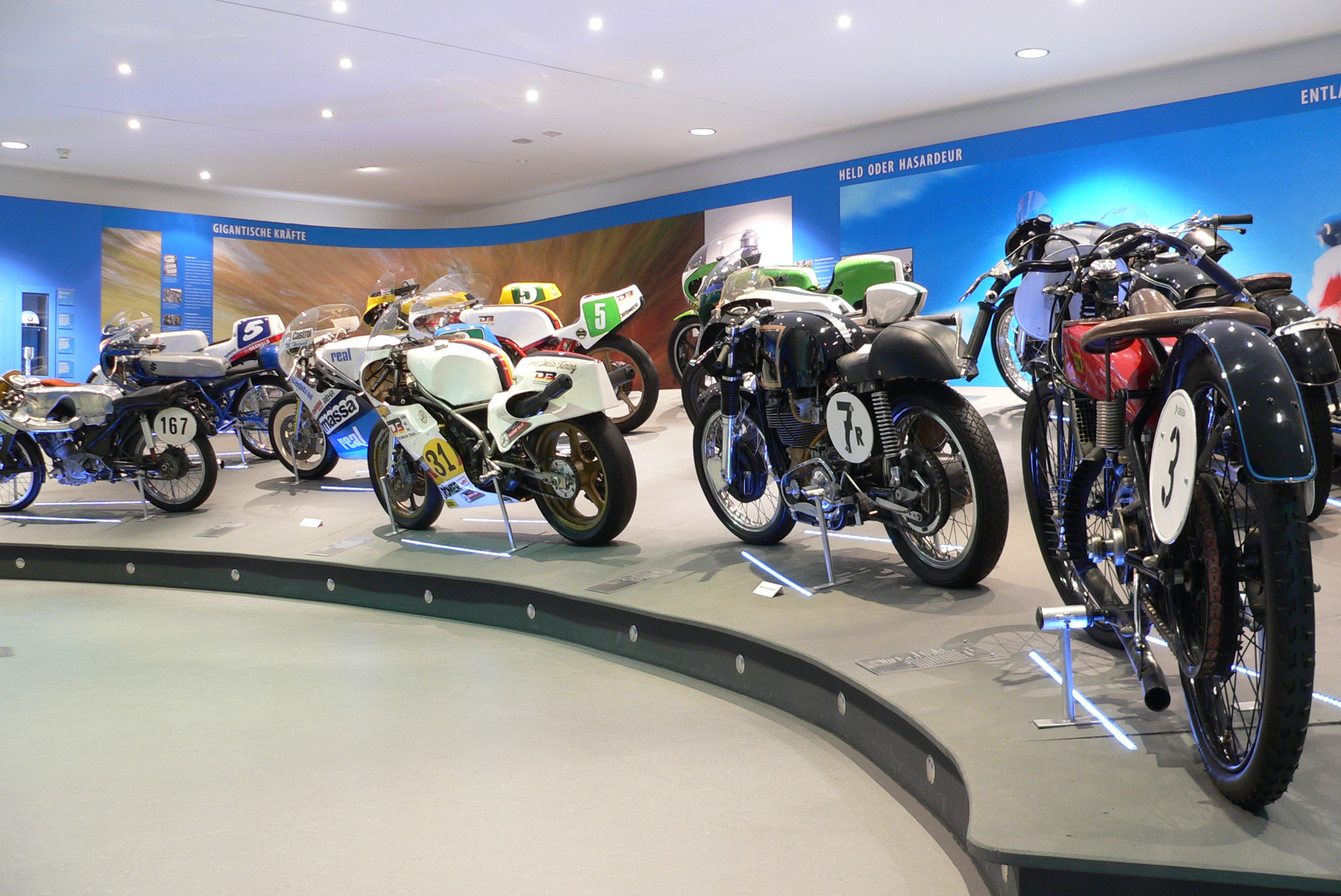 The department of motoracing of the Deutsches Zweirad- und NSU-Museum